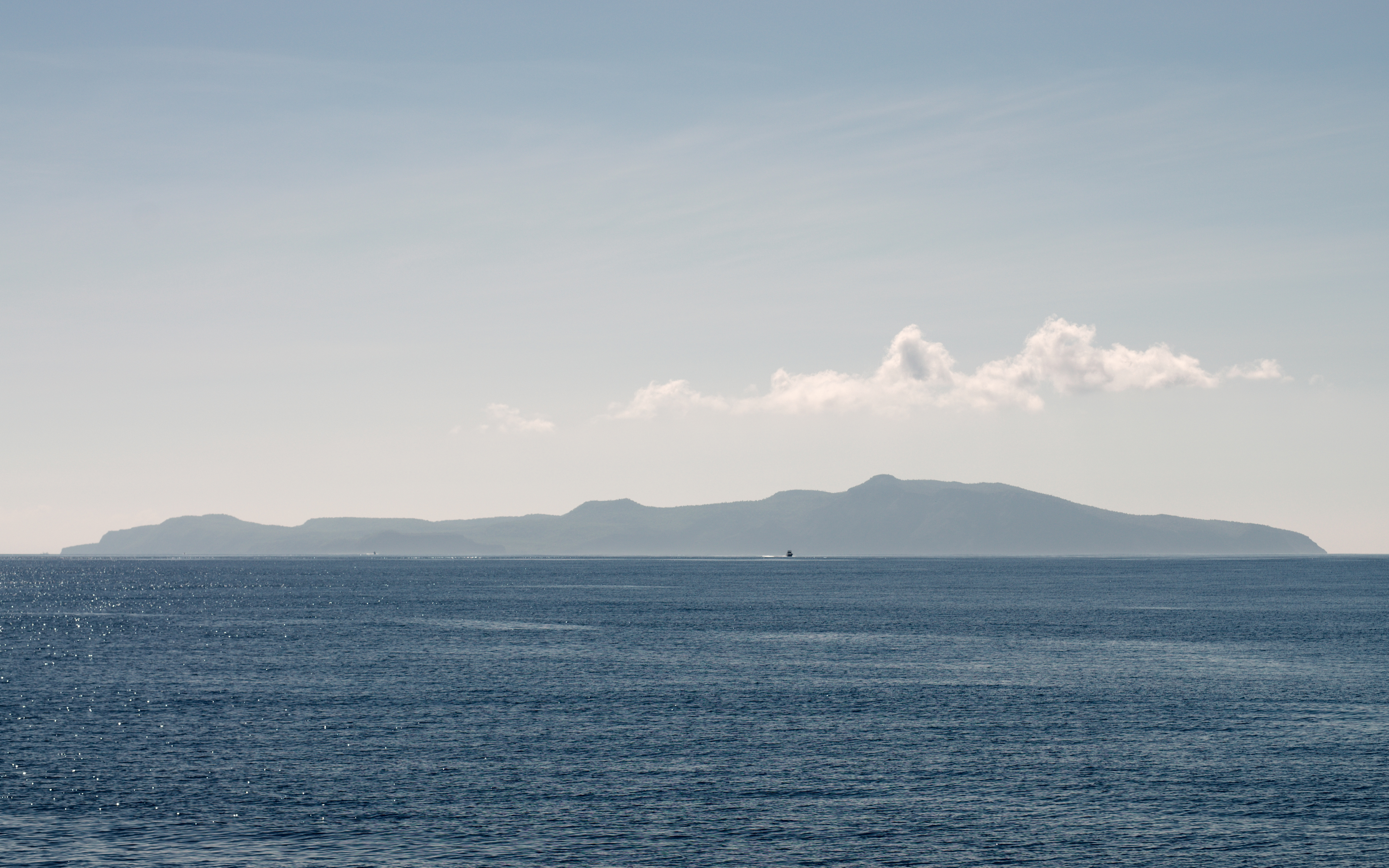 View on Santa Fe island from a boat heading east, Galapagos Islands, 2017.